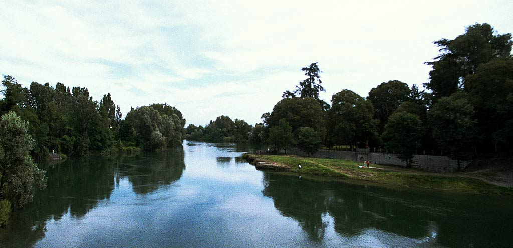 The Italian river Adda flowing towards the camera between the communes of Vaprio d’Adda, Province of Milan (on our left) and Canonica d’Adda, Province of Bergamo.